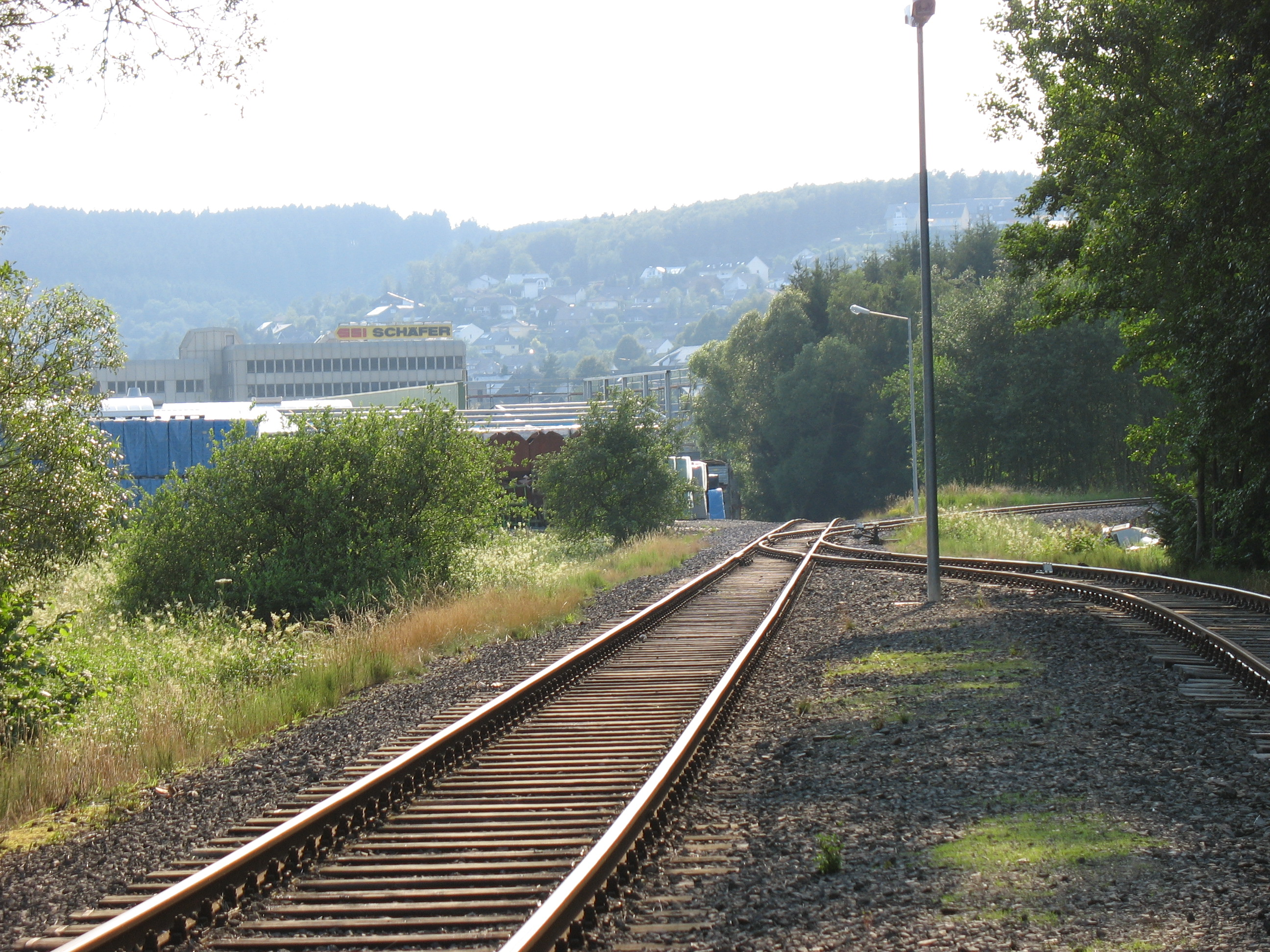 Railroad & SSI Schäfer in Neunkirchen